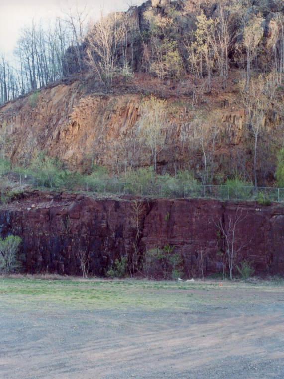 Farmington traprock quarry near Plainville, Connecticut. The quarry is mainly within basalt (‘traprock’) of the Talcott Formation of the Hartford Basin. This basalt is underlain by red siliciclastics of the Shuttle Meadow Formation. Both formations are lowest Jurassic in age and belong to the Newark Supergroup.